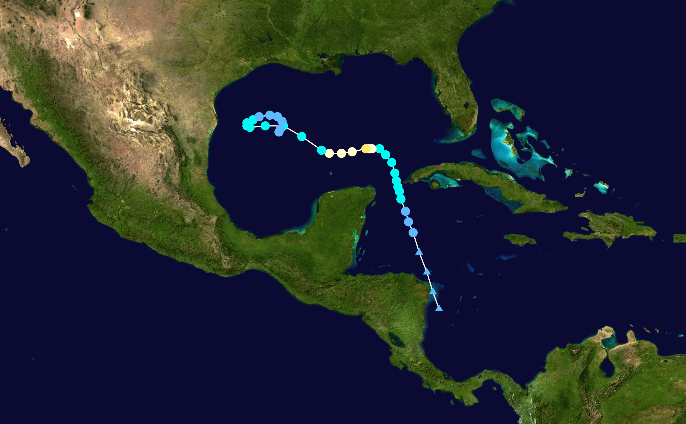 Hurricane Jeanne (1980) track. Uses the color scheme from the Saffir-Simpson Hurricane Scale.